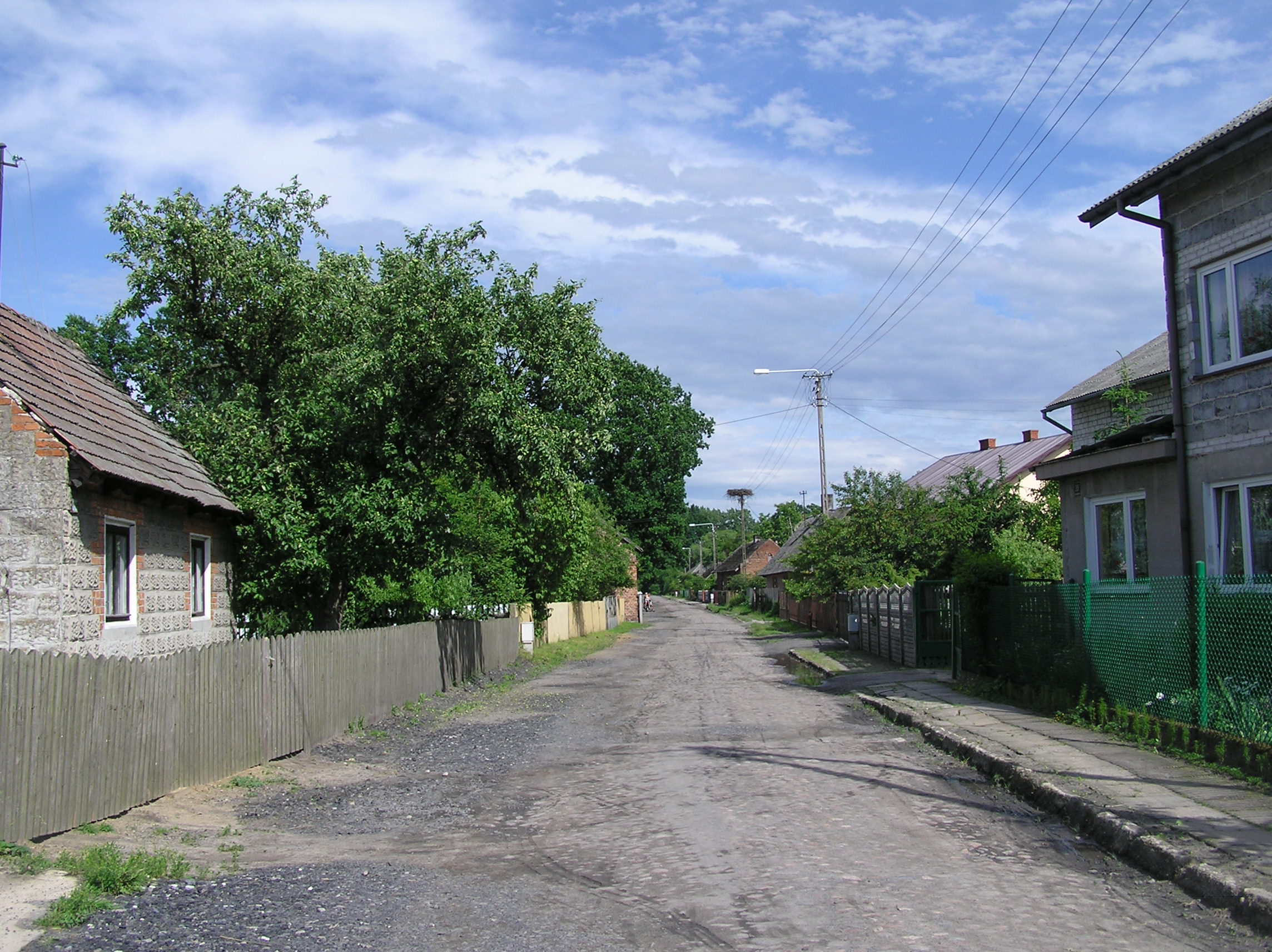 Złoczew (Poland, Łódź Voivodeship, Sieradz County), Starowiejska Street